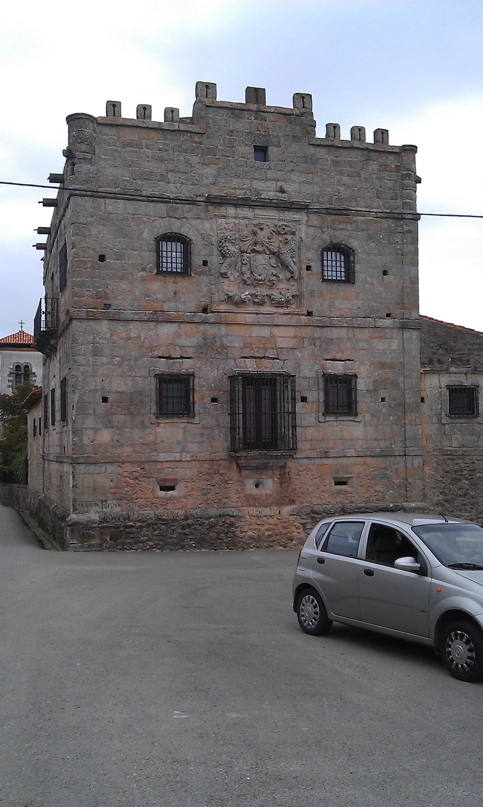 Beltrán de la Cueva Tower (Cantabria, Spain).